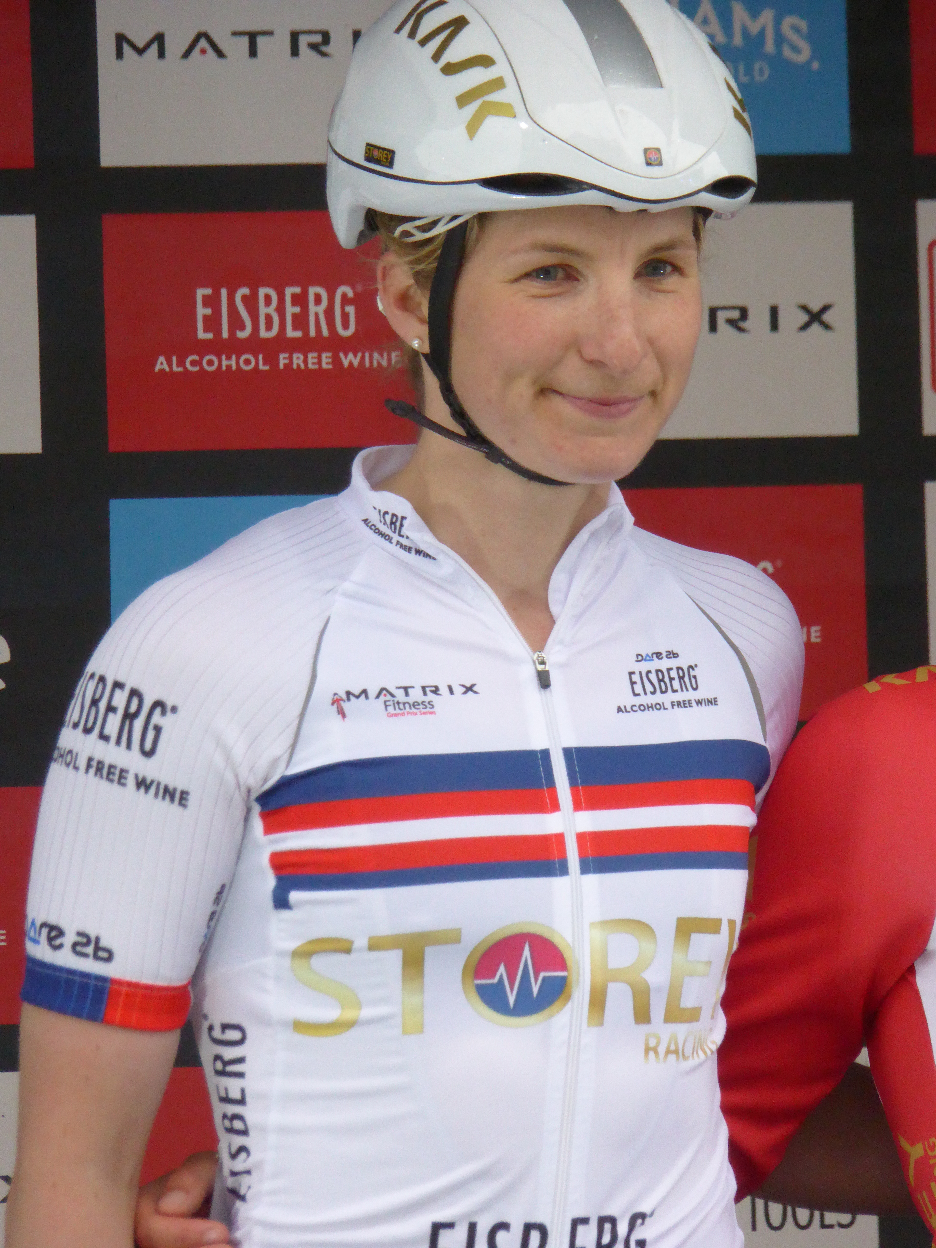 Elizabeth Jane Harris (Storey Racing), prior to Round 7 of the Matrix Fitness GP Series in Motherwell, on 23 May 2017. Harris is wearing the Eisberg sprints classification leader's jersey.